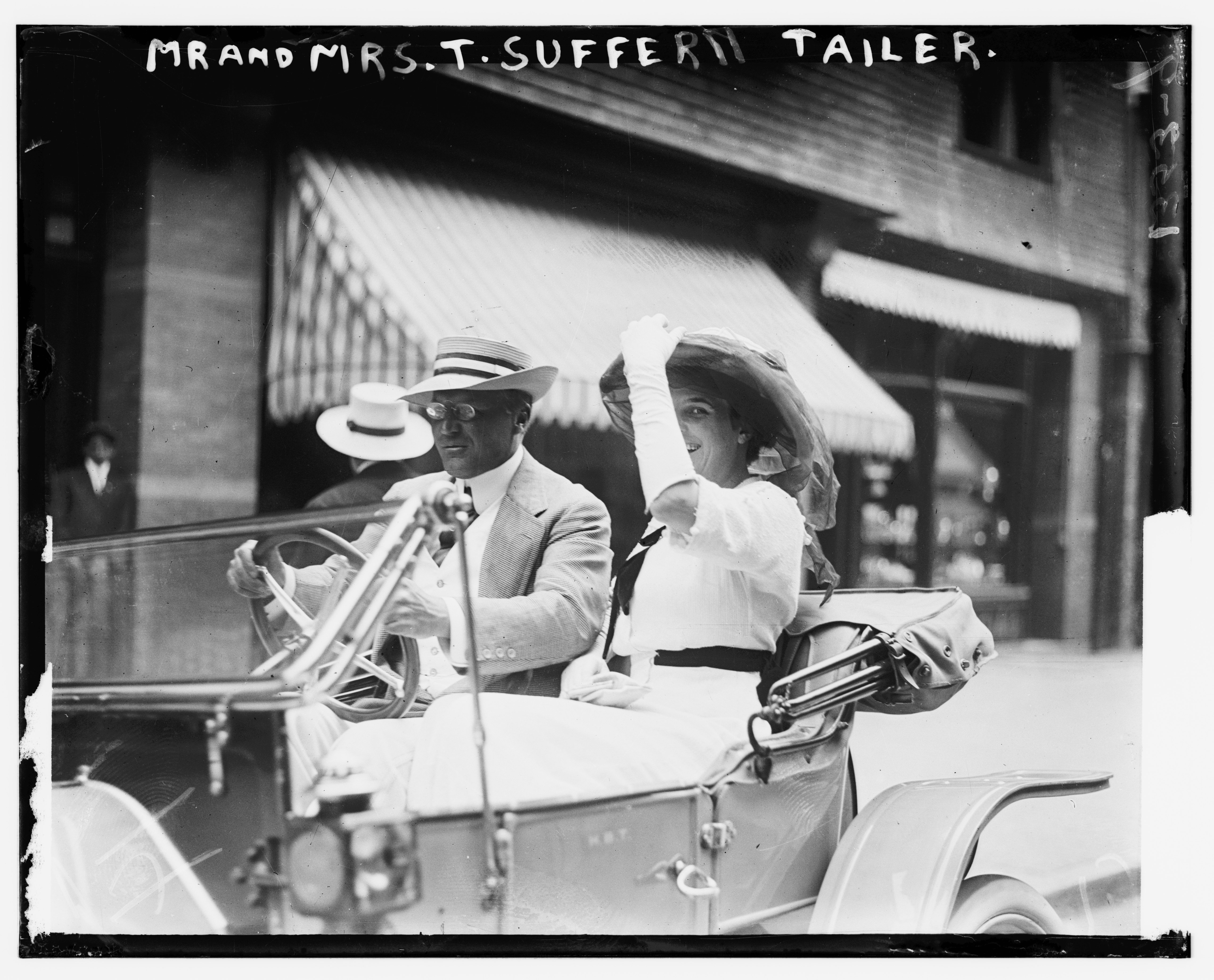 Title: Mr. & Mrs. T. Suffern Tailer Abstract/medium: 1 negative : glass ; 5 x 7 in. or smaller.